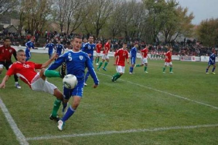 Hungary vs Israel U18 European Cup qualification match has been played in Buzanszky stadion, Dorog in 2011